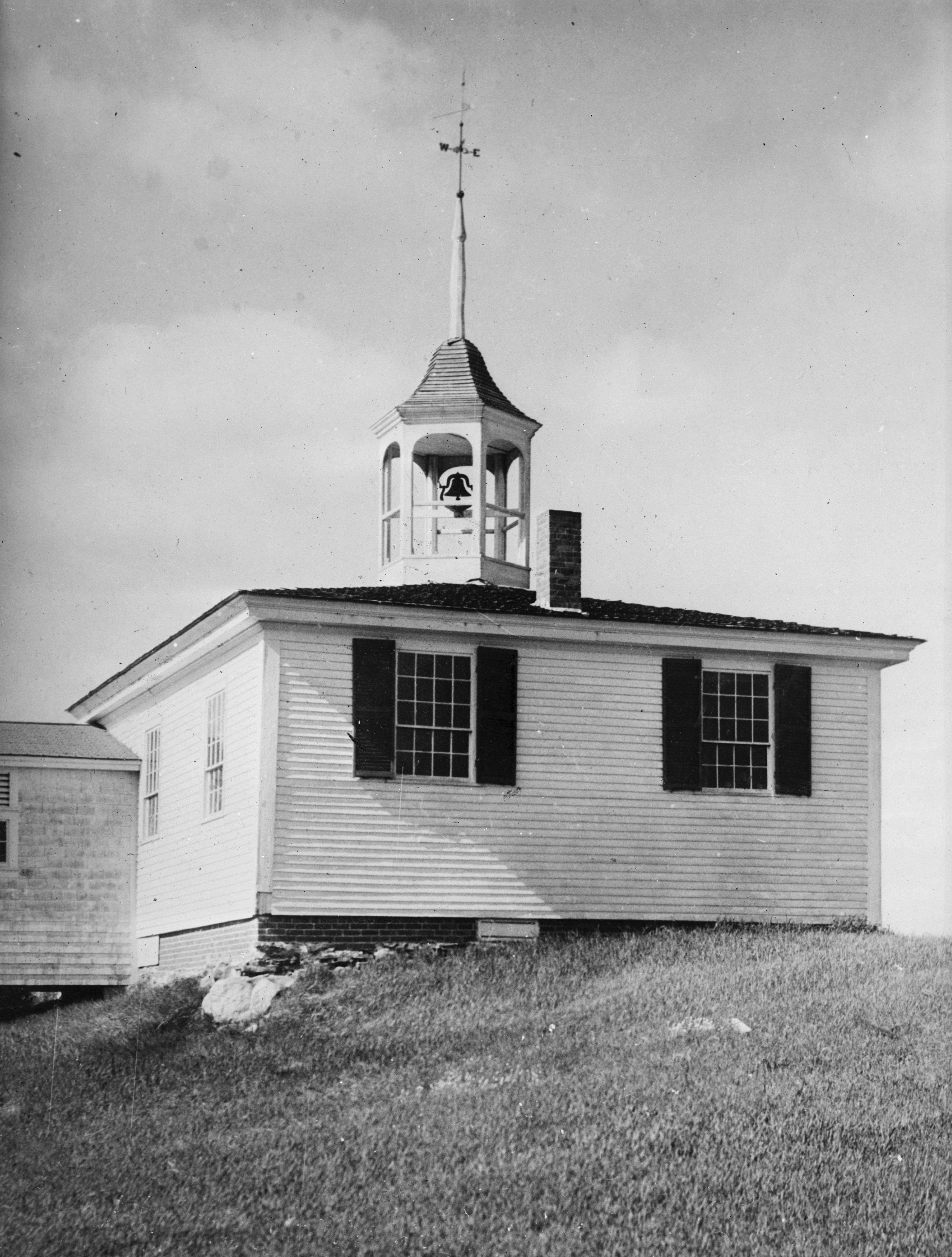 Front of the former Alna School (now the town hall) in Alna, Maine, United States. Built in 1795, it is listed on the National Register of Historic Places.